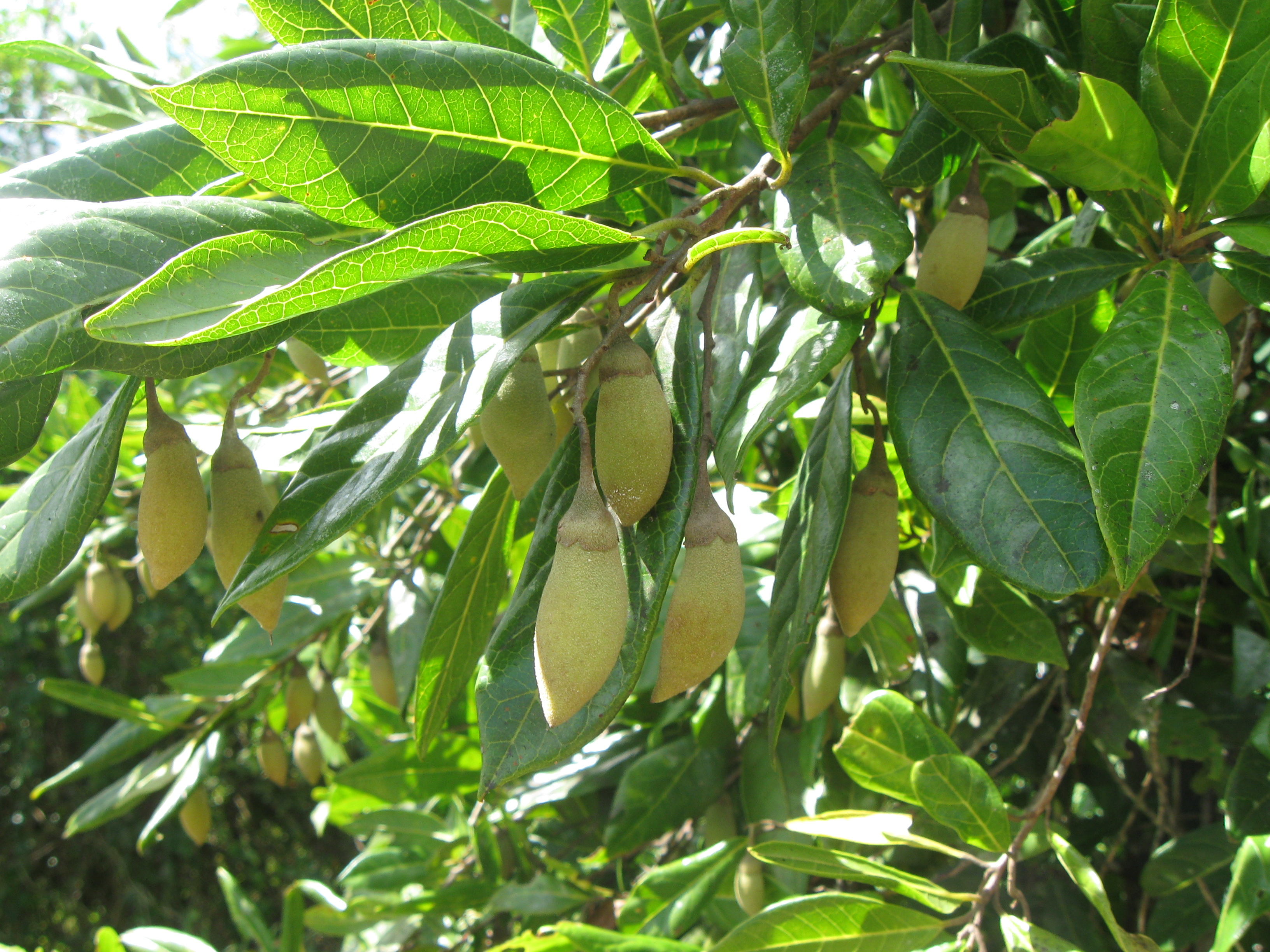 Styrax portoricensis common name: Palo de jazmín status: Endangered Listed on 4/22/1992 Photo by Omar Monsegur